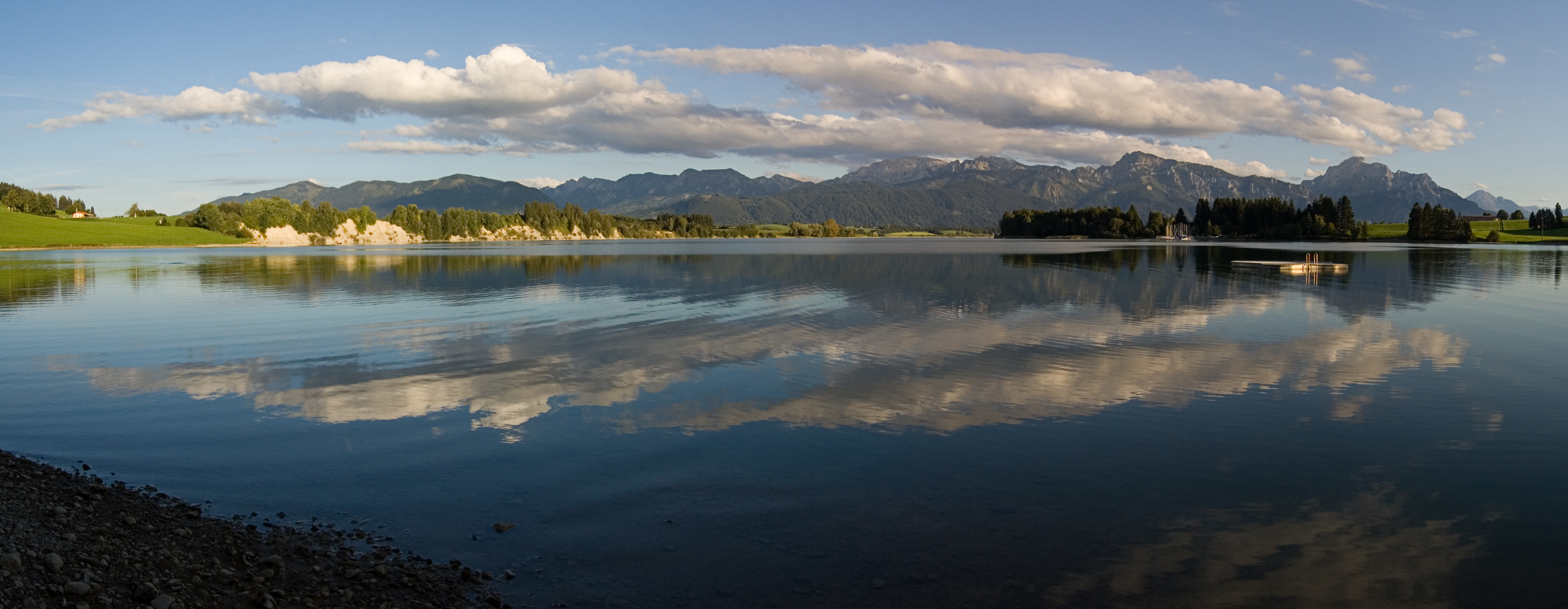 Panorama of the Forggensee, Bavaria, Germany Camera: Nikon D50 Lens: AF-S DX Zoom-Nikkor 18-55 mm 1:3,5-5,6G ED